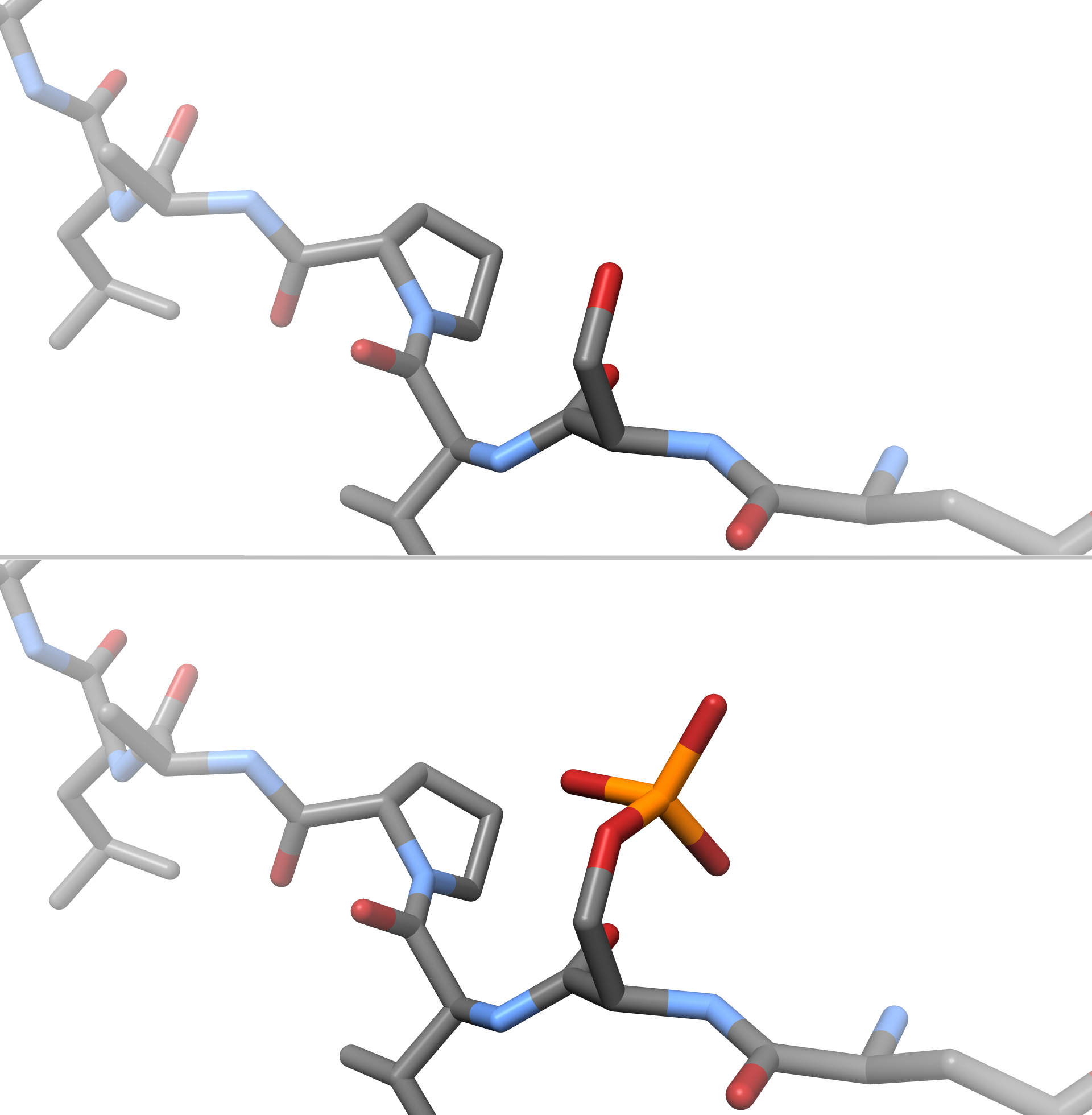 Phosporylation of a serine residue, before and after shot